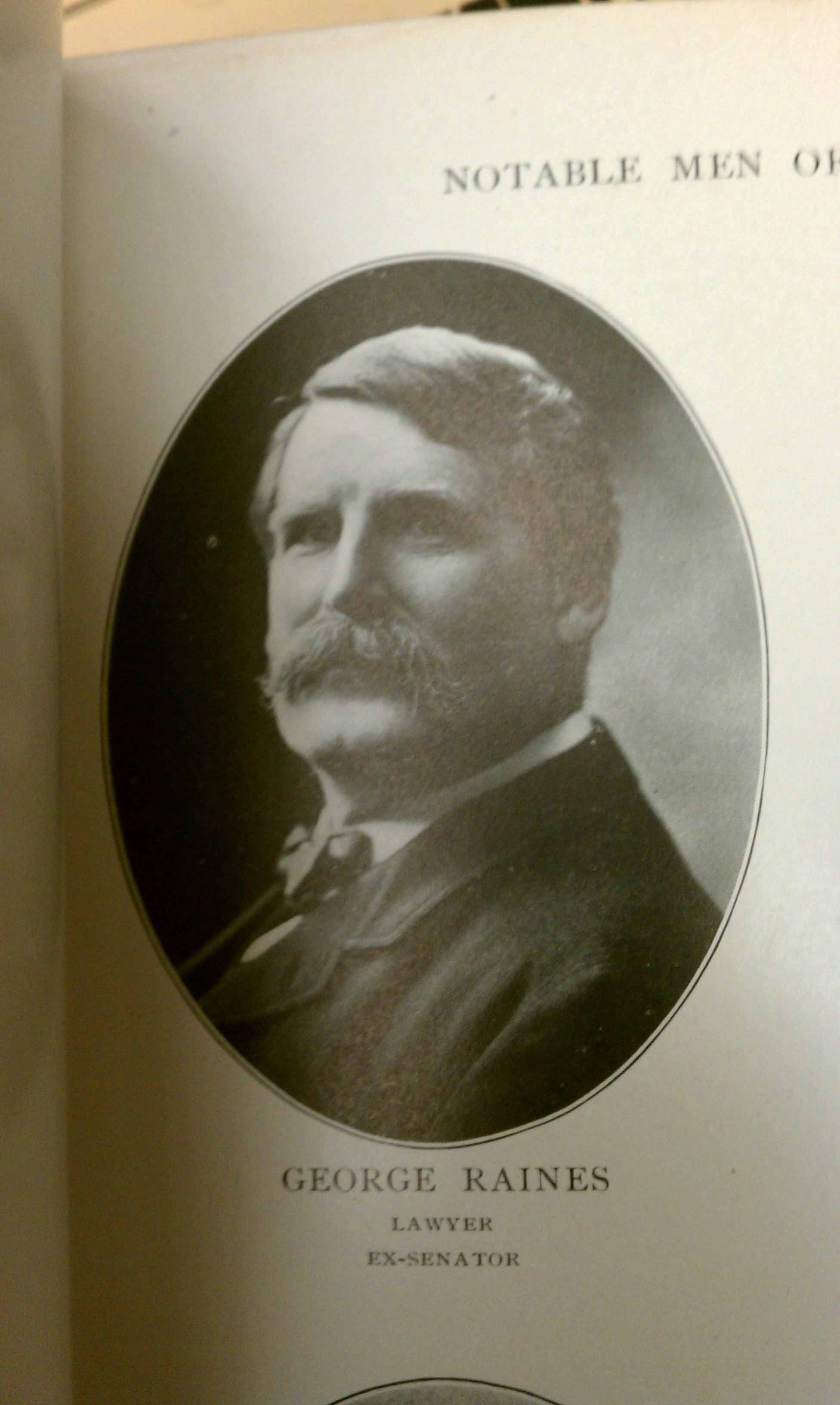 George Raines Lawyer Ex-Senator New York